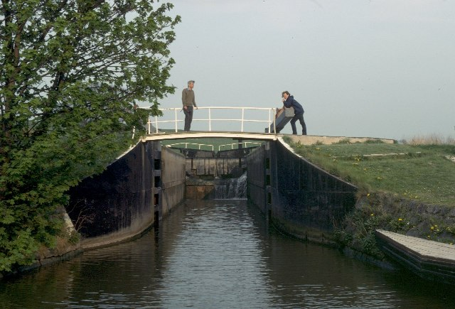 Beeston Iron Lock. This lock on the Shropshire Union Canal is unusual in that it is built of iron rather than the conventional stone or brick. This is reputedly due to the prevailing geological conditions.